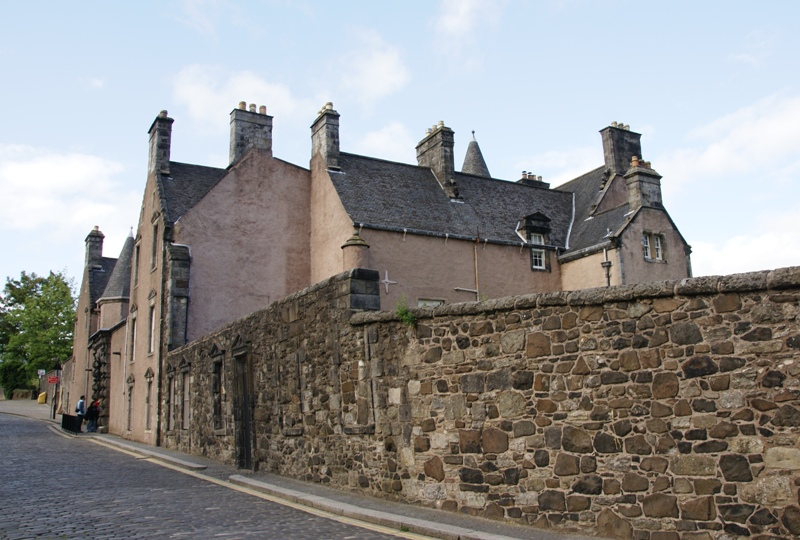 Argyll's Lodging, Stirling, Scotland